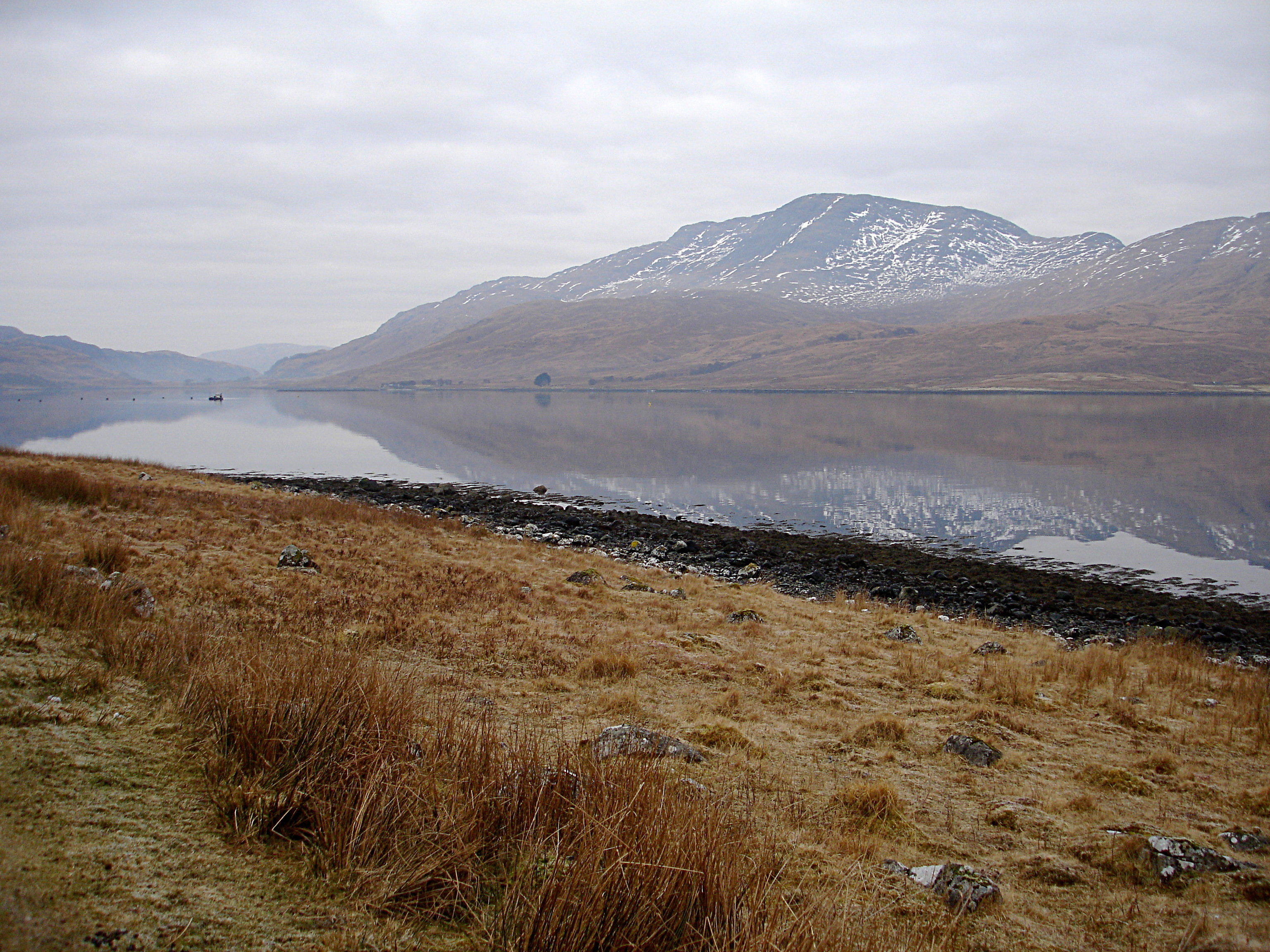 South shore of Loch Spelve The narrow road to Croggan runs close by the shore of Loch Spelve, which forms a sheltered place for fish farms. The way out by road to the rest of Mull lies past the head of the loch (far left) and back along the opposite shore, below the slopes of Creach-Beinn, and on to Strathcoil.